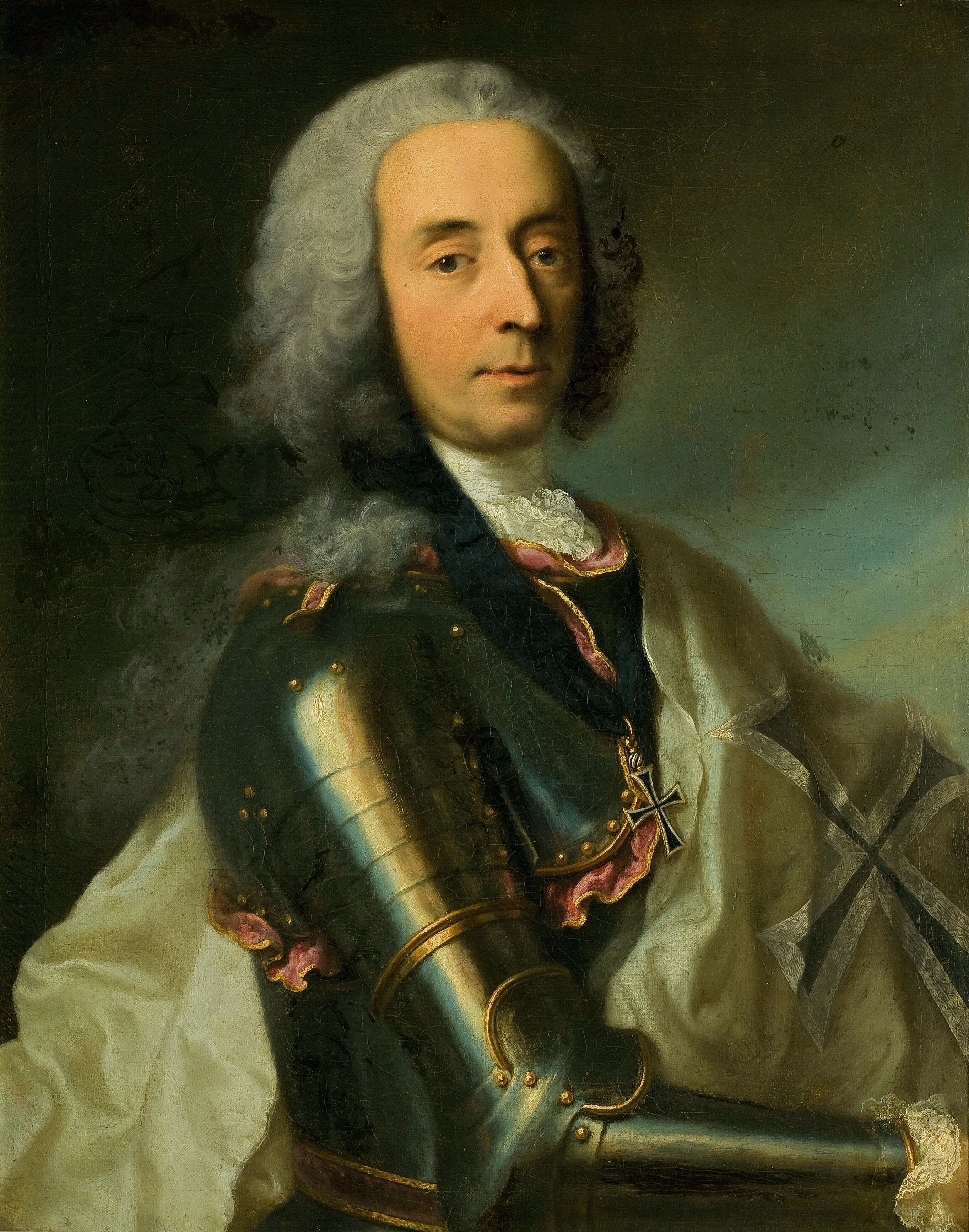 Count Unico Wilhelm of Wassenaer Obdam (1692-1766), Member of the Knightship of Overijssel, later member of the Knightship of Holland, member of the states of Friesland and commissioned member of the States General, High Council of Delfland, council for the Admiralty of the Meuse, Director of the Dutch East-India Company at the chamber of Hoorn and of Enkhuizen, envoy to France, State Commander of the German Order. Also known as a composer. Collection of Stichting Twickel Castle, Delden (Court of Twente), Inv./cat.nr 62 (observed in 1977)